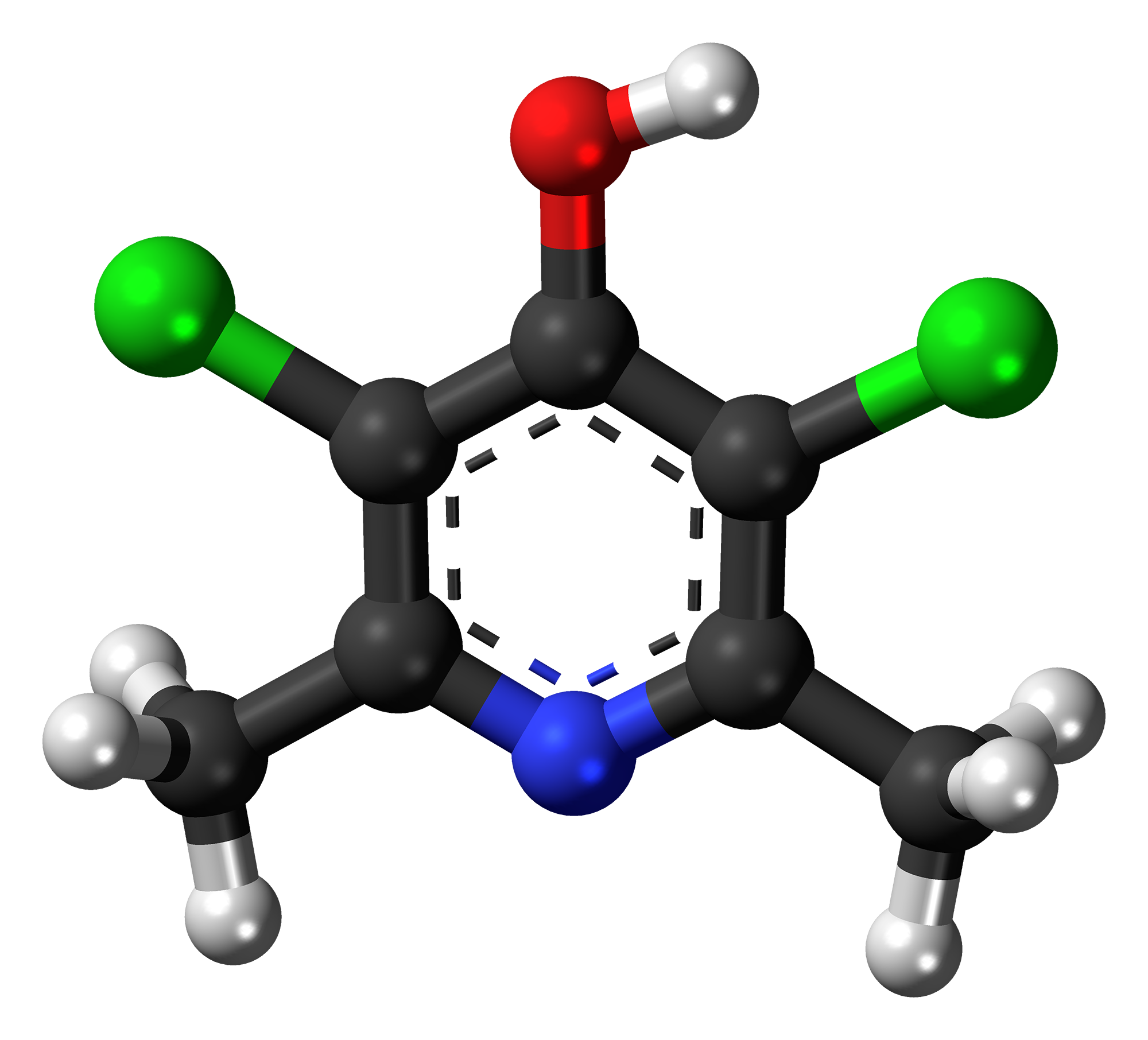 Ball-and-stick model of the clopidol molecule, an antiparasitic agent. Color code: Carbon, C: black Hydrogen, H: white Oxygen, O: red Nitrogen, N: blue Chlorine, Cl: green